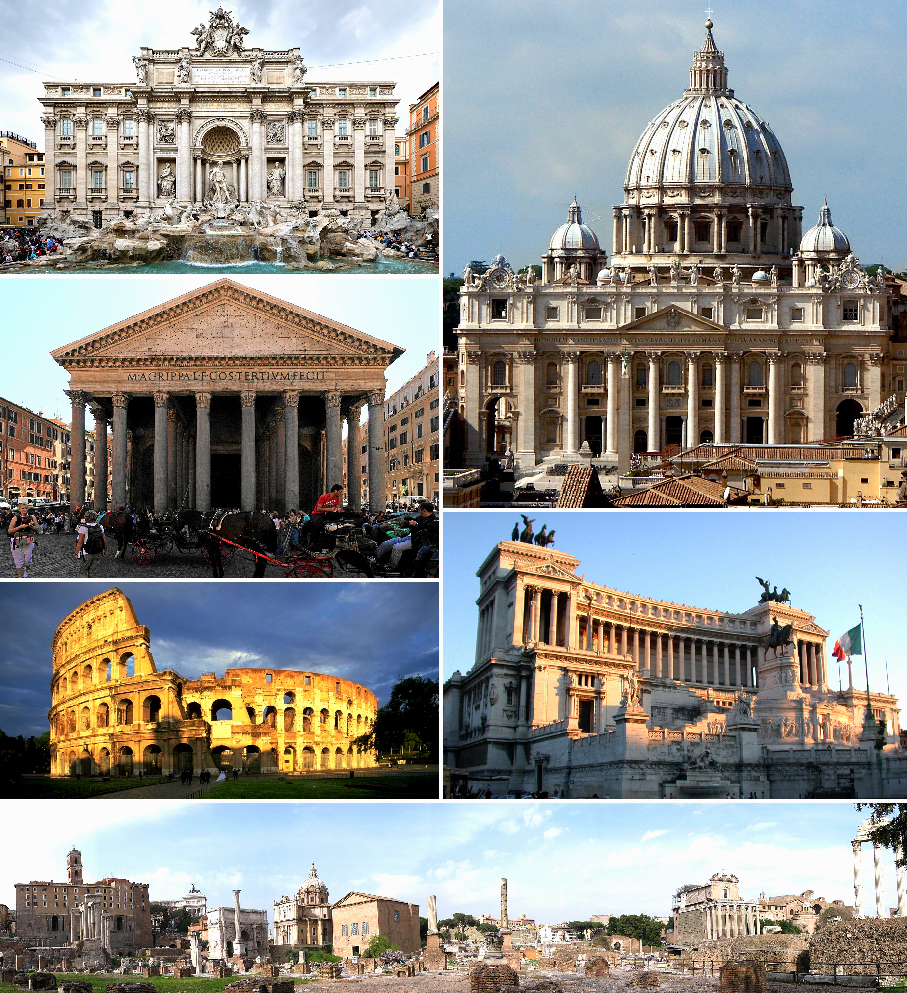 Montage of Rome